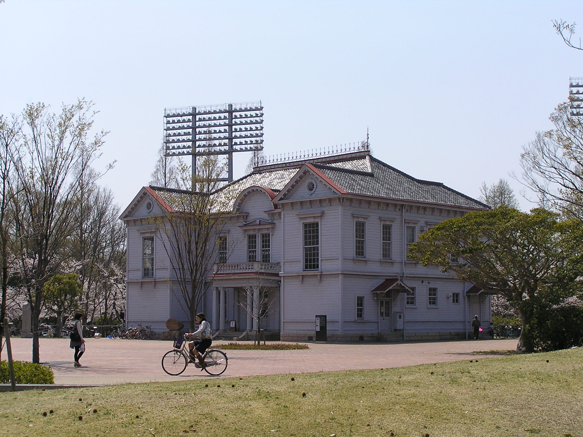 Clubhouse in Okayama Prefectural Multipurpose Grounds